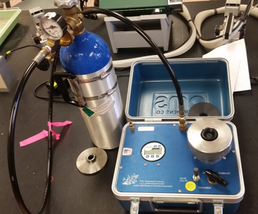 One of the most common models of pressure bombs, the equipment is all contained within the same case except for the compressed air canister. The leaf is inserted through the black gasket in the steel ring with the petiole sticking out. Pressure can slowly be increased by moving the black dial from off towards chamber.